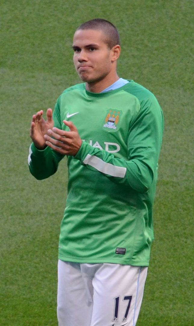 Jack Rodwell warming-up for Manchester City F.C. before first game of the 2013/14 season against Newcastle United on 19 August 2013.